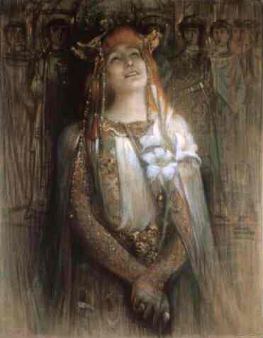 Mihail Simonidi (1870 - 1933) - Sarah Bernhardt în Teodora Bizanţului.